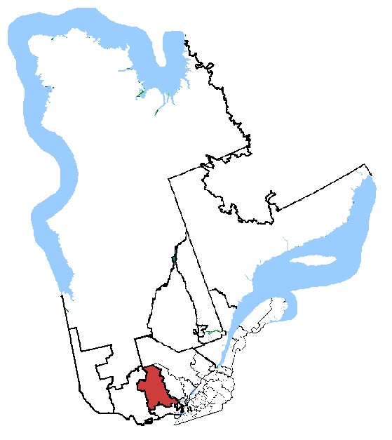 Map of the Laurentides—Labelle electoral district. Based on Earl Andrew's maps, created by SimonP.